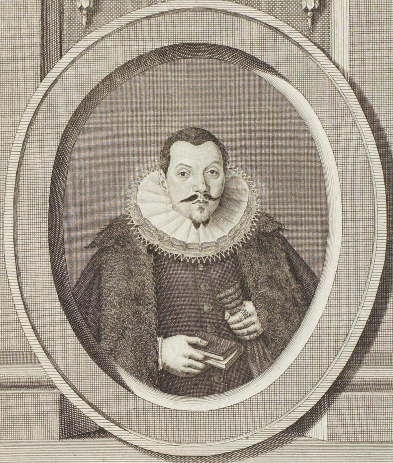 Engraved portrait of Albert Hein (der Ältere), in: in: Monumenta inedita rerum Germanicarum praecipue Cimbriacarum et Megapolensium : quibus varia antiquitatum, historiarum, legum iuriumque Germaniae, speciatim Holsatiae et Megapoleos vicinarumque regionum argumenta illustrantur, supplentur et stabiliuntur ; cum tabulis aeri incisis / e codicibus ... studuit ... et cum praefatione instruxit Ernestus Joachimus de Westphalen .. Band 3, Lipsiae: Martin 1741